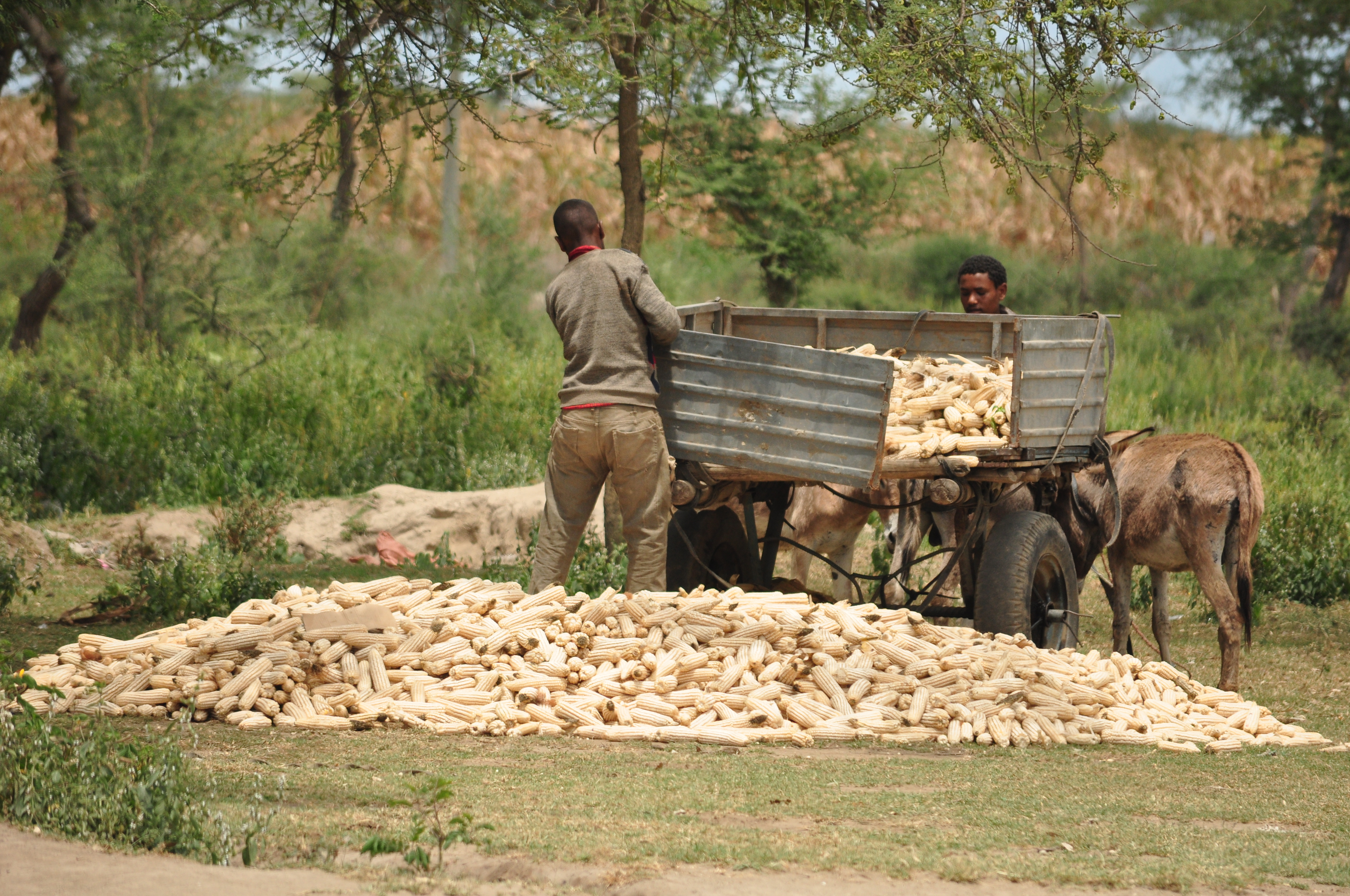 Man transporting and dumping Corn from a Farm